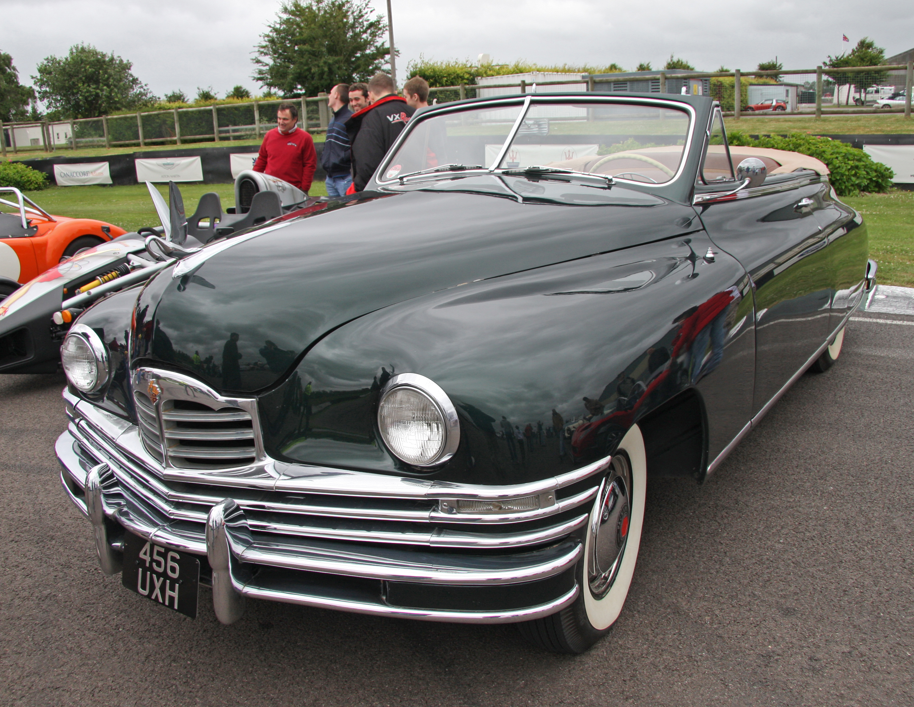 Packard Super Eight Victoria Convertible Coupe Model 2232-2279-9 (1949)